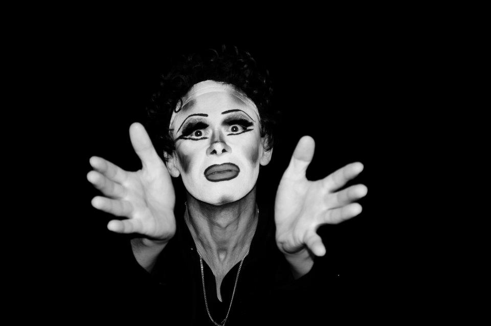 Mime artist Martin Kent